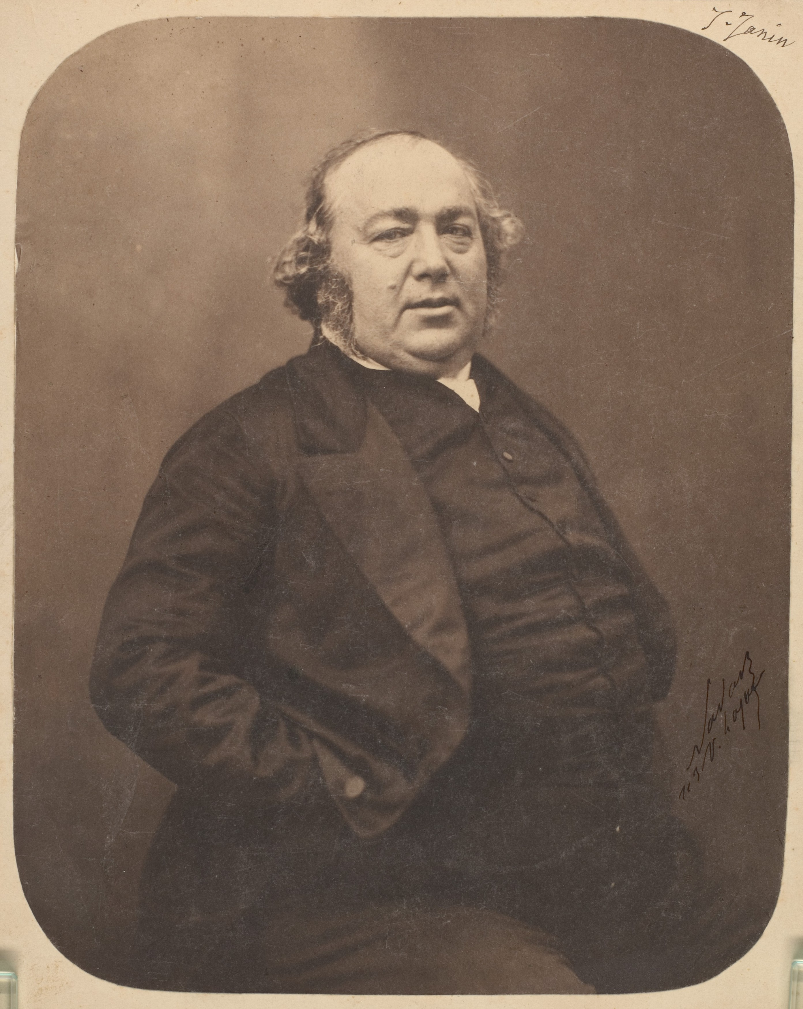 Photograph of French writer and critic Jules Janin